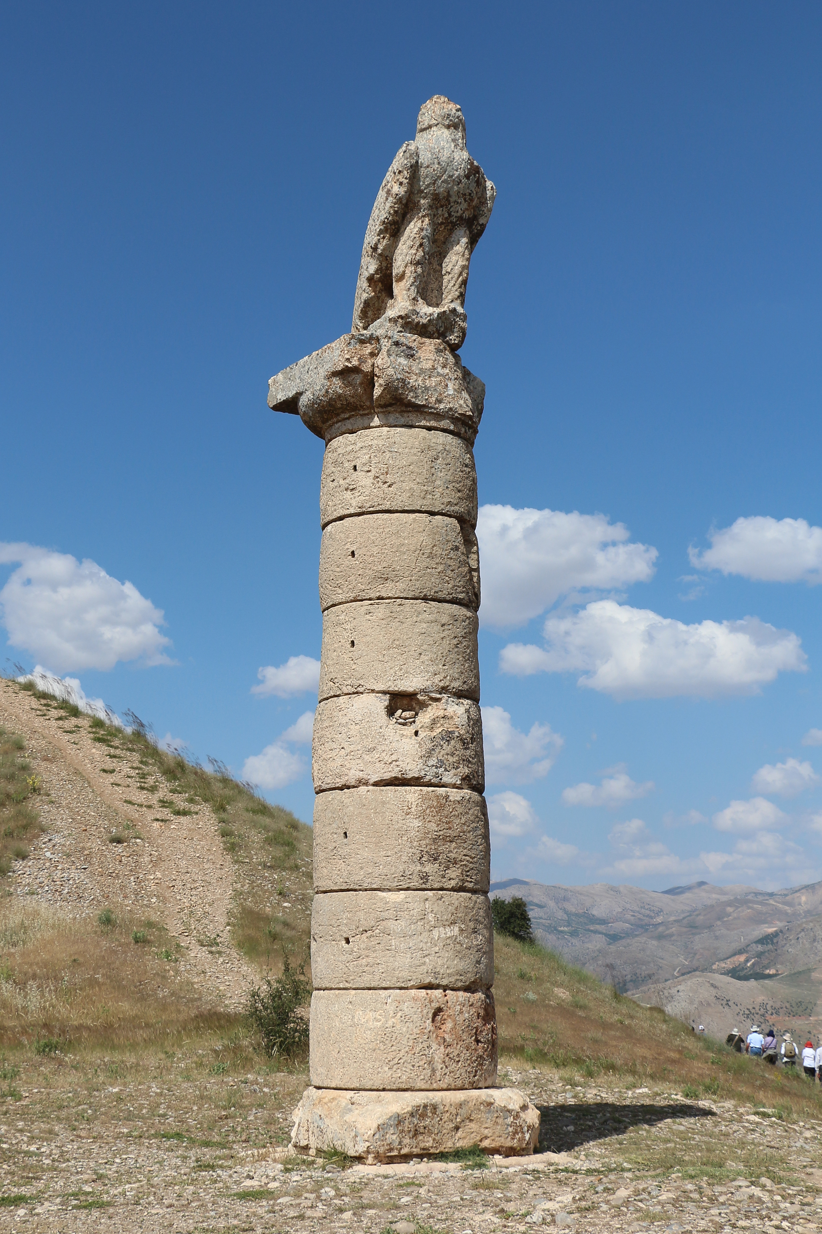 Column with a statue of an eagle at the Tumulus of Karakus, Turkey